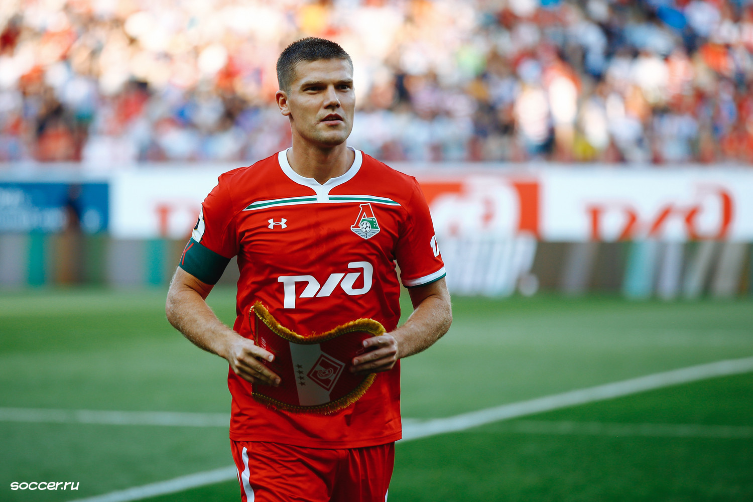 Igor Denisov